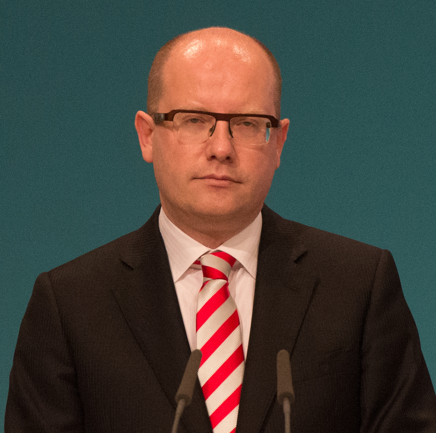 MP Bohuslav Sobotka in Berlin